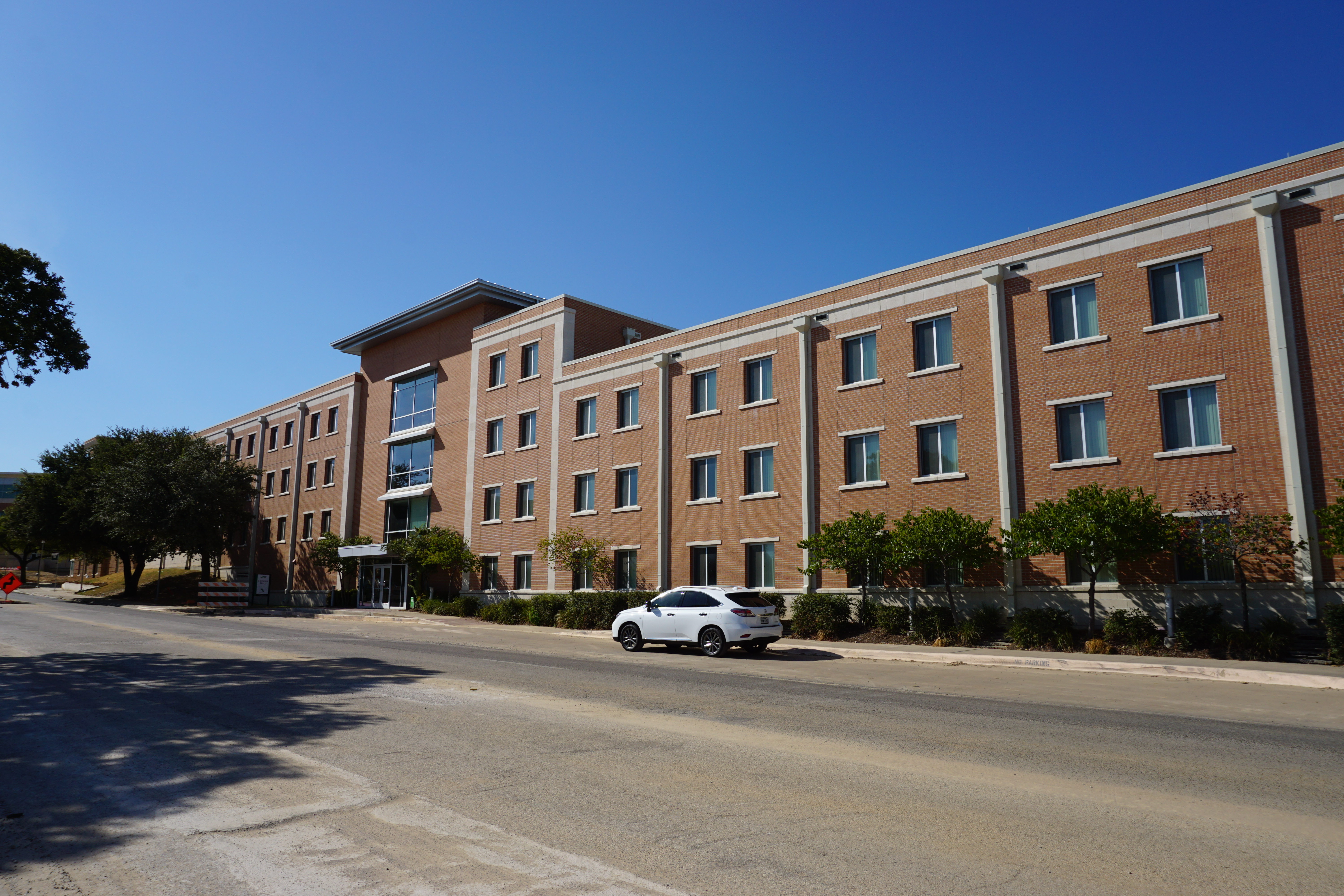 Honors Hall on the campus of the University of North Texas in Denton, Texas (United States).